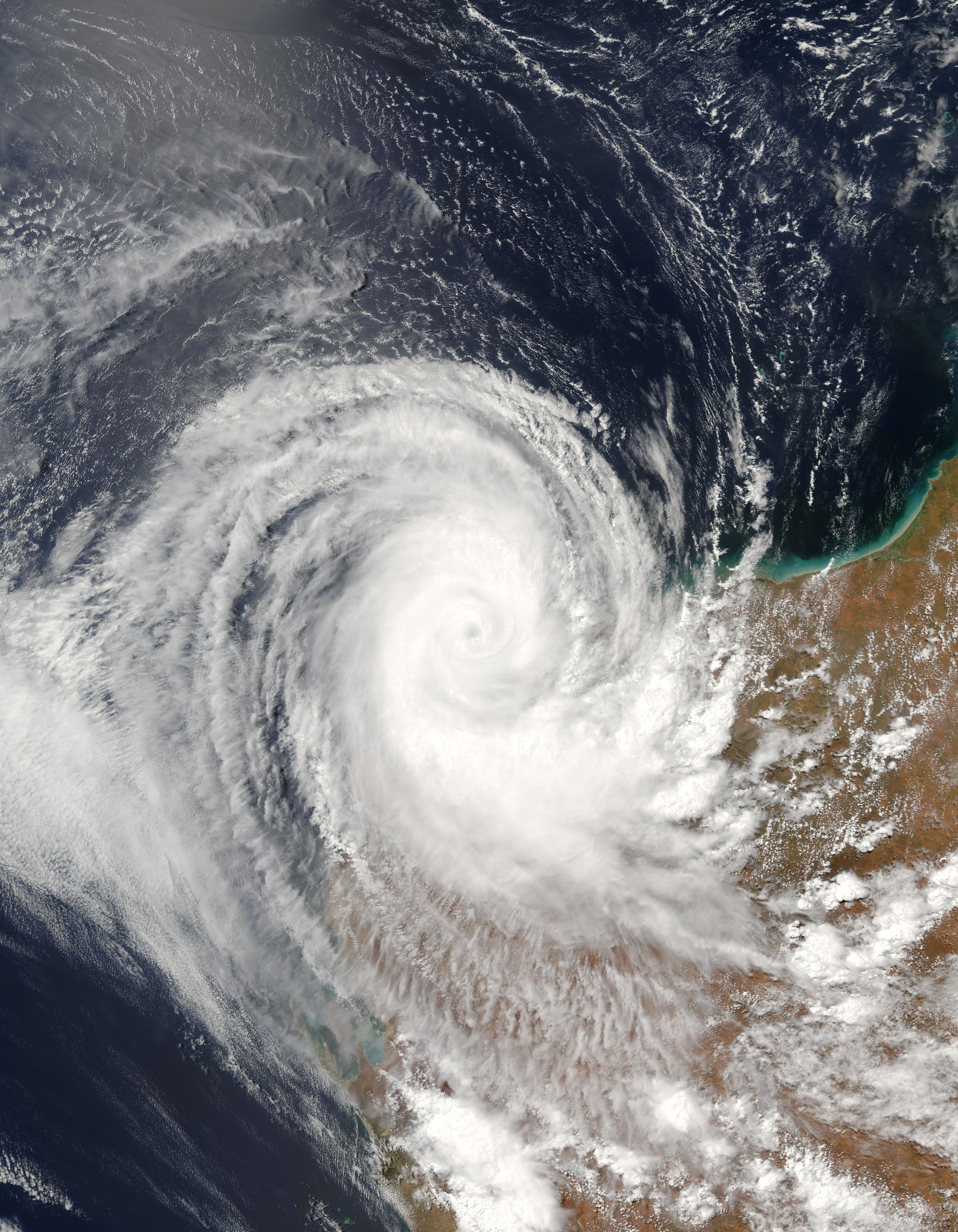 The Moderate Resolution Imaging Spectroradiometer (MODIS) on NASA’s Aqua satellite captured this image of Tropical Cyclone Monty as it moved ashore over Western Australia on March 1, 2004.